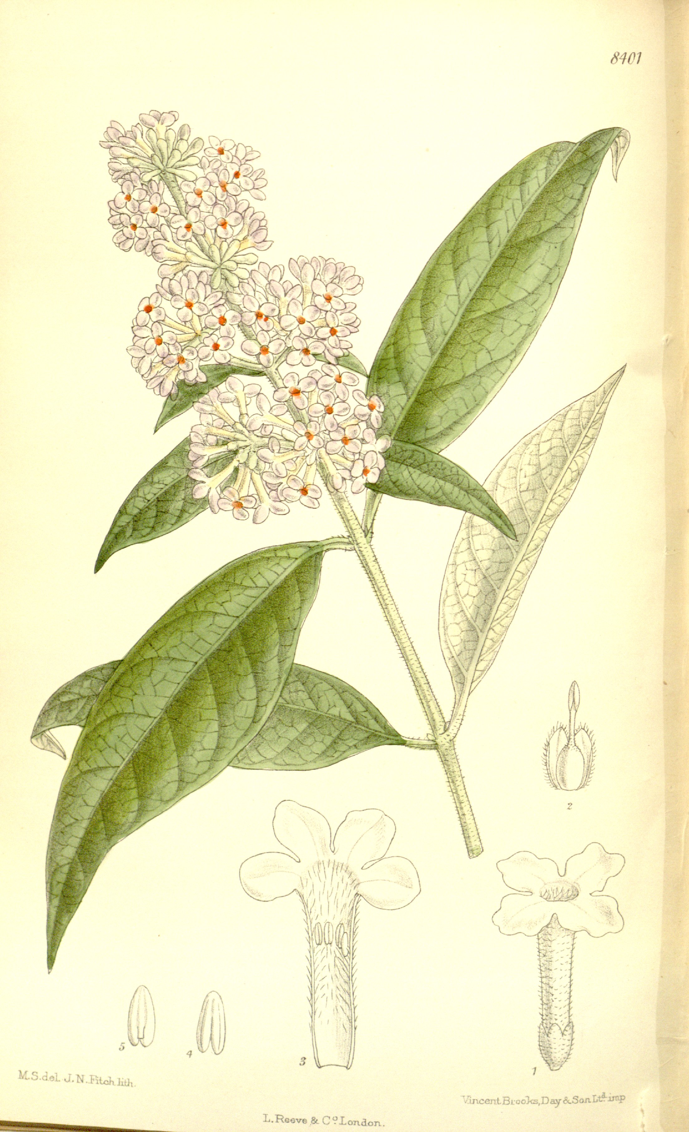 Buddleja officinalis, Scrophulariaceae